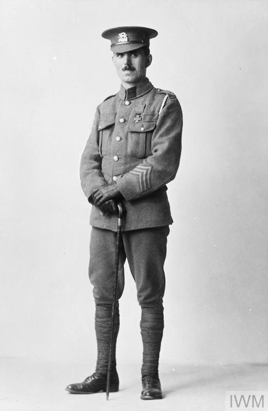 Portrait of William Buckingham, awarded the Victoria Cross: France, 10/12 May 1915.